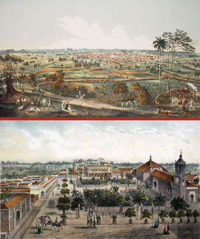 Two views of Santa Clara city in Cuba. Top view "General view of Villa-Clara from the lime quarries of the Portuguese